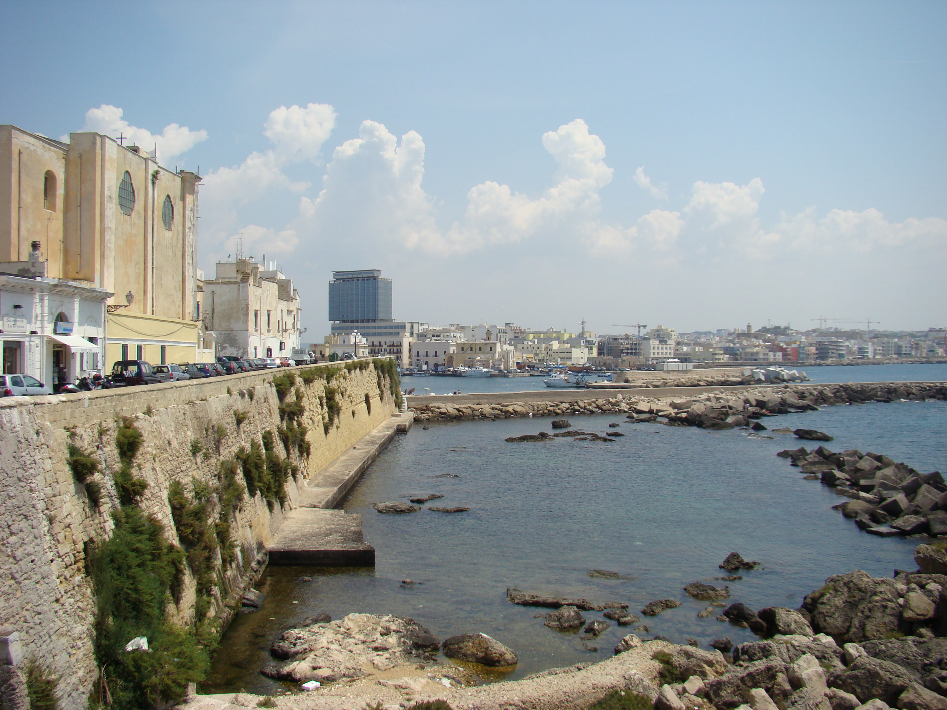 Gallipoli - New town